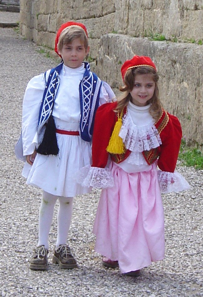 Greek costumes, work by children appearing in the ceremony for the lighting of the flame for the 2004 Summer Olympics